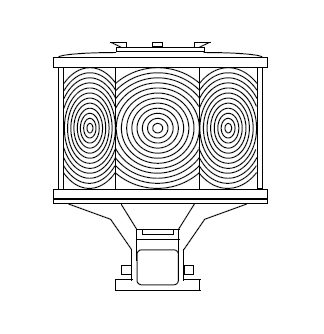 Side view of a complete Vega VRB-25 lighthouse optical system.